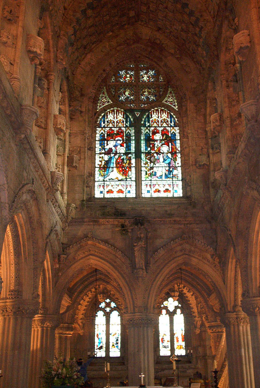 Interior of Rosslyn Chapel, Rosslyn, Scotland. © Jeremy Atherton, 2002.